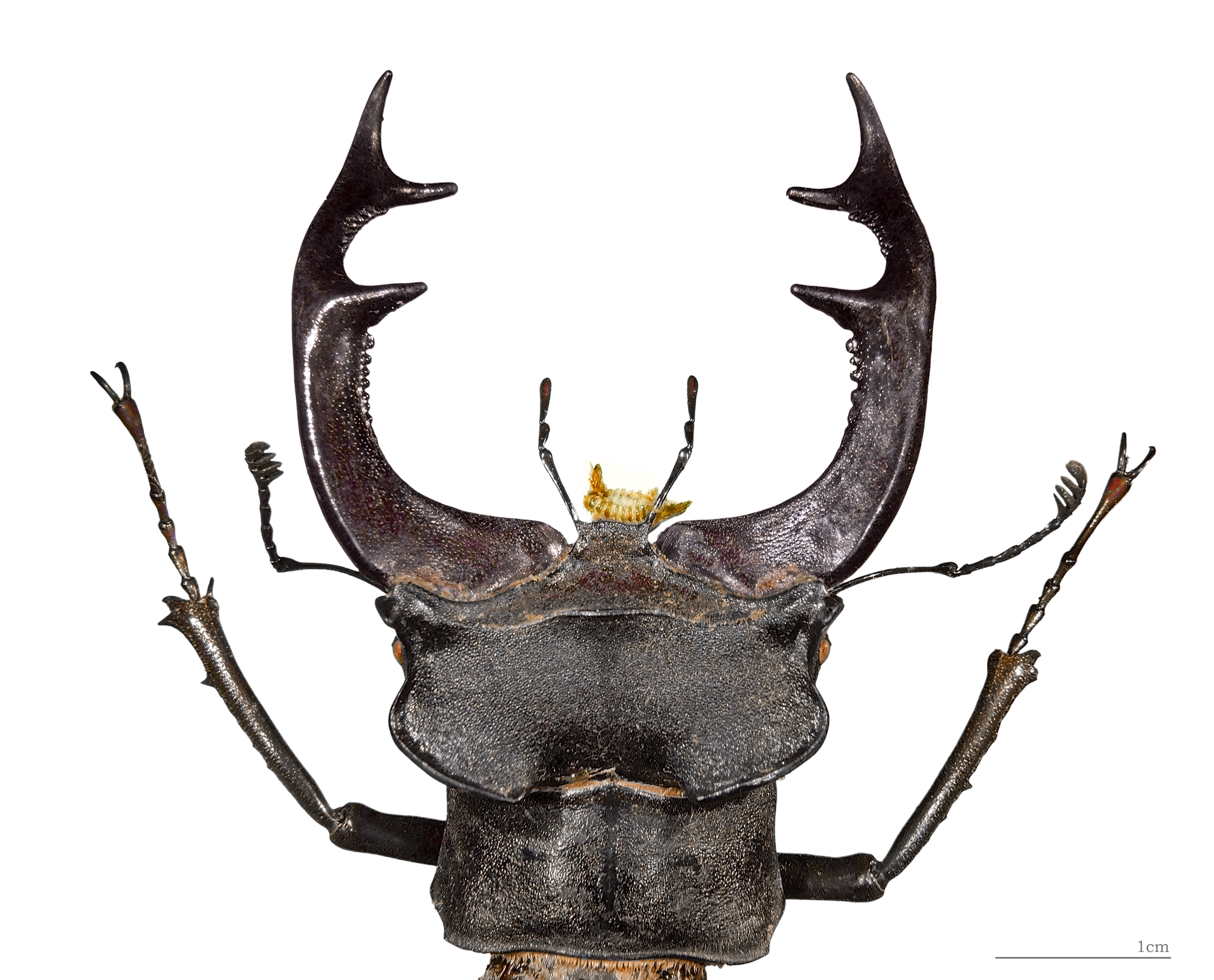 Stag beetle, Head and mandibles